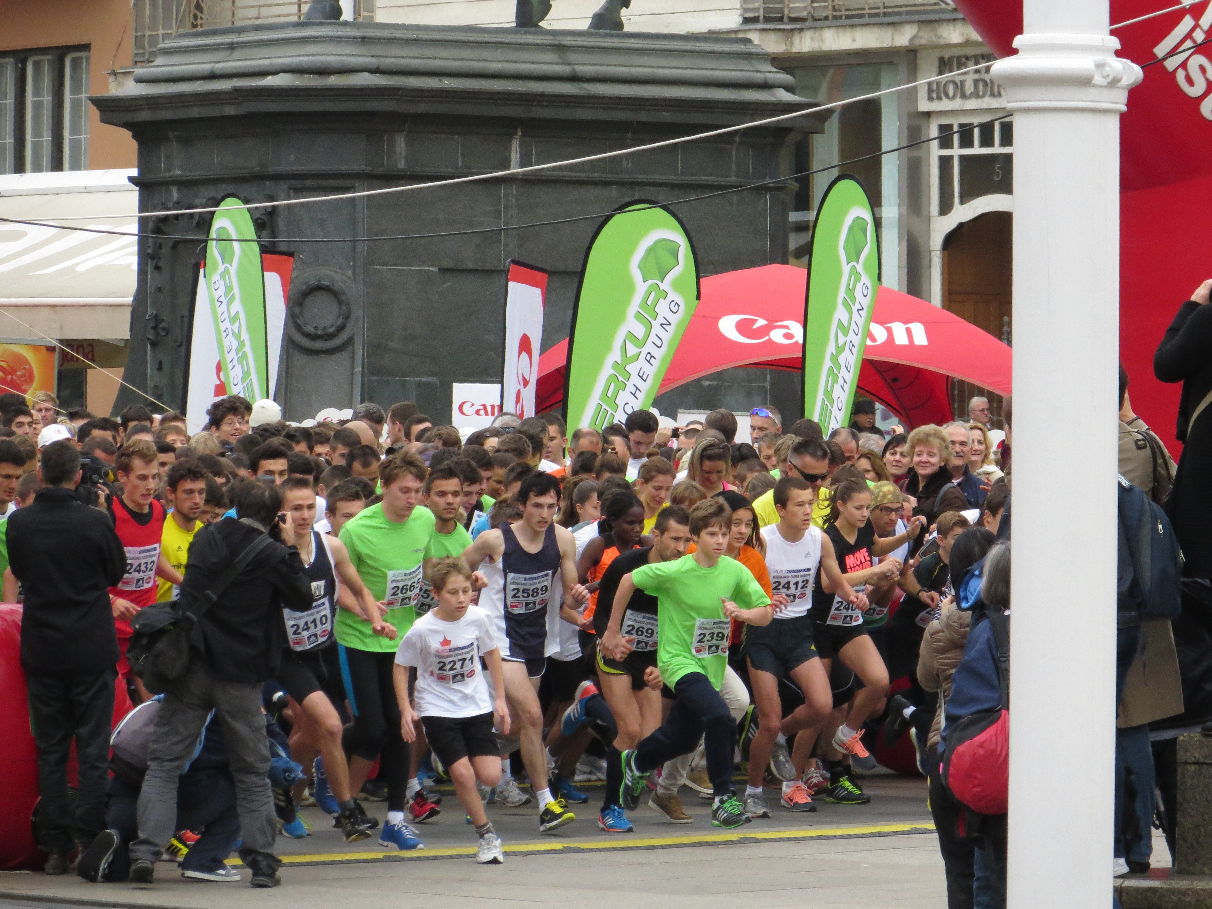 Start of the citizens race at the 2013 Zagreb Marathon.